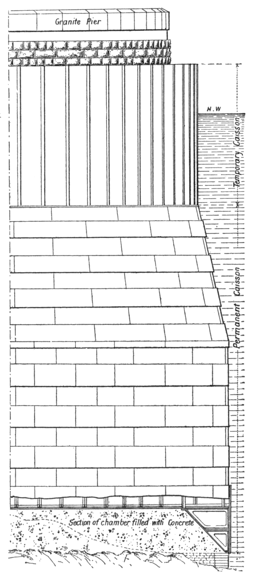 Forth Bridge (1890) Fig. 53, Page 30